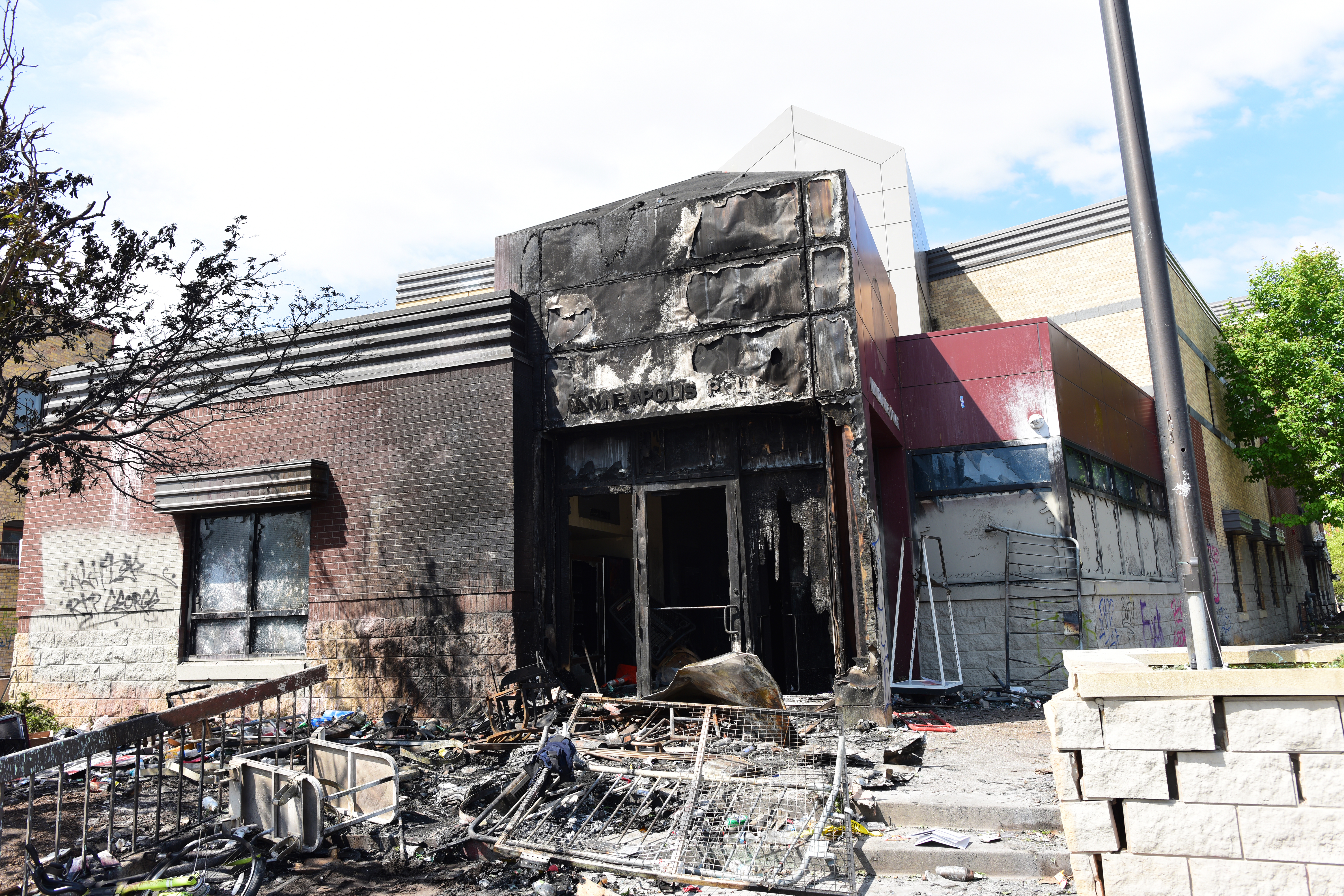 Minneapolis, Minnesota May 30, 2020 11am 2020-05-30 This content is provided under the terms of the Creative Commons Attribution License. Please don't request other license terms. See the Creative Commons Attribution license details about how you can share, copy, distribute, transmit, remix and adapt this if you give attribution to: Fibonacci Blue